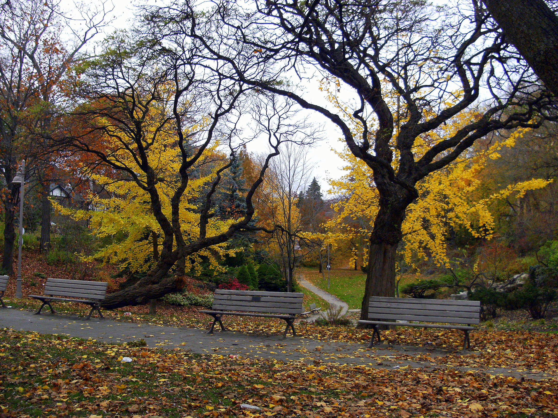 Ivan Forrest Gardens, Toronto.